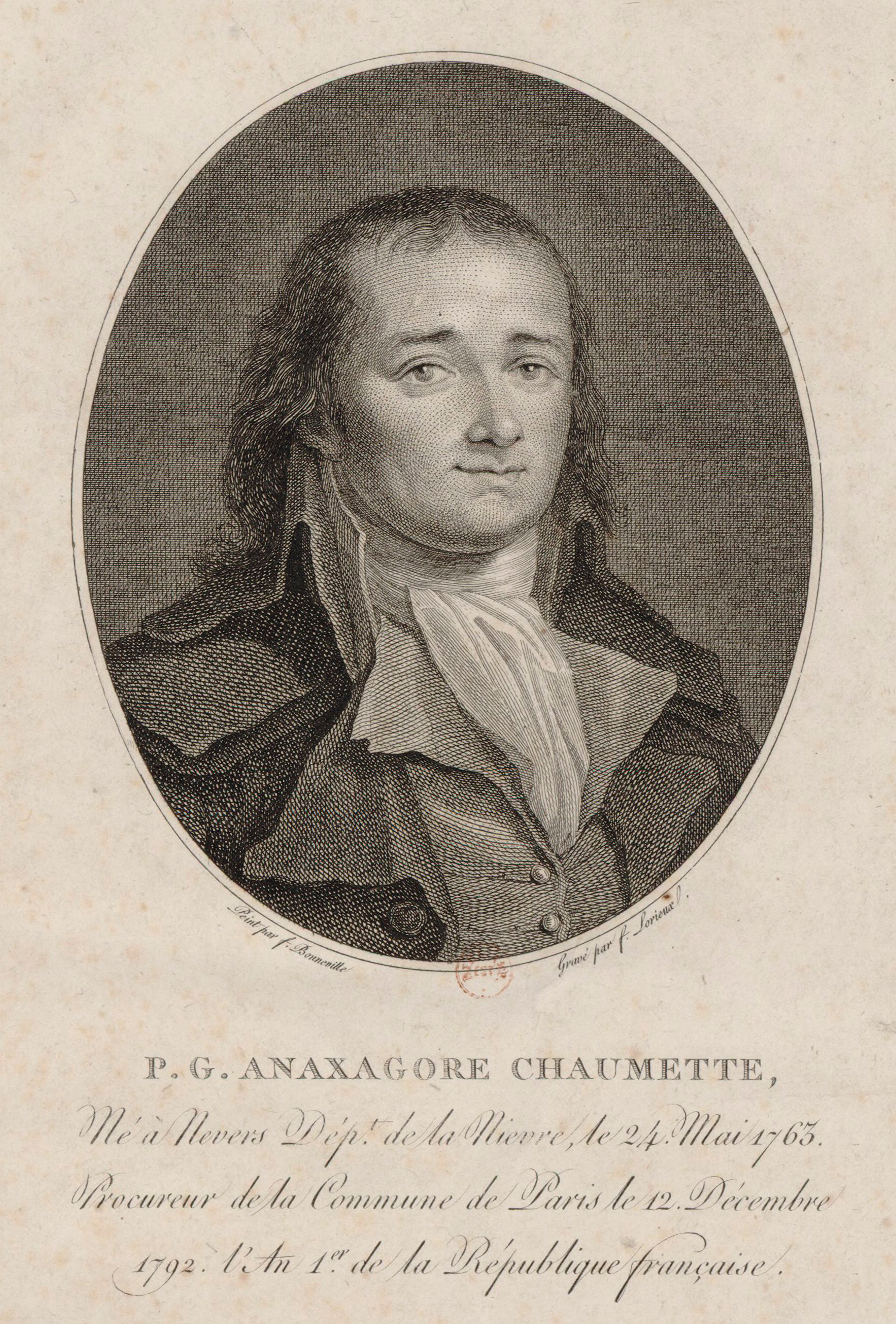 bust portrait of a man